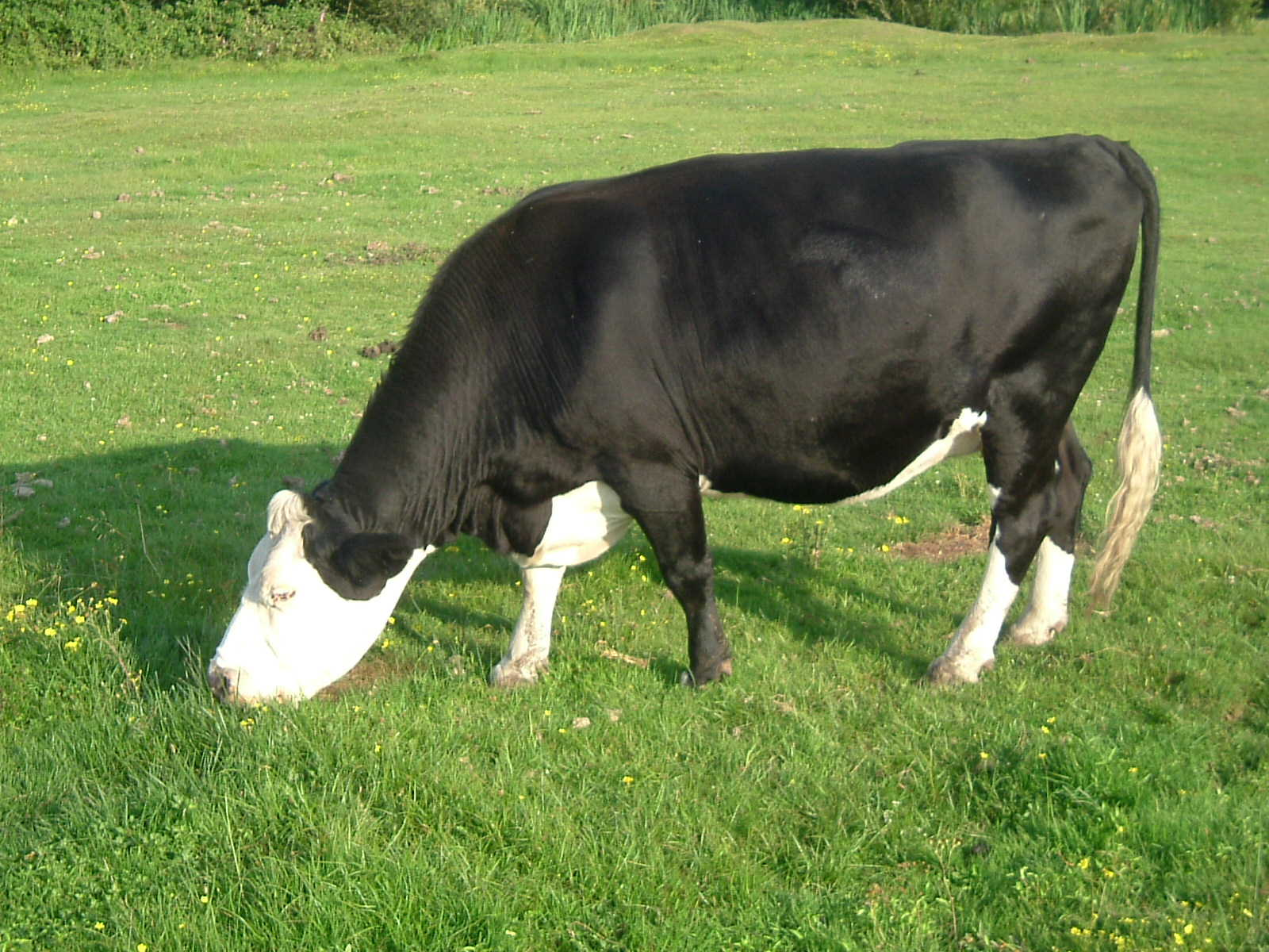 Black Hereford heifer: a cross of a Hereford beef bull with a Holstein Friesian dairy cow. This heifer belongs to a New Forest commoner, and is grazing on the common grazing land of the village green of North Gorley, part of the New Forest in Hampshire, UK (GB grid: SU 161 118).